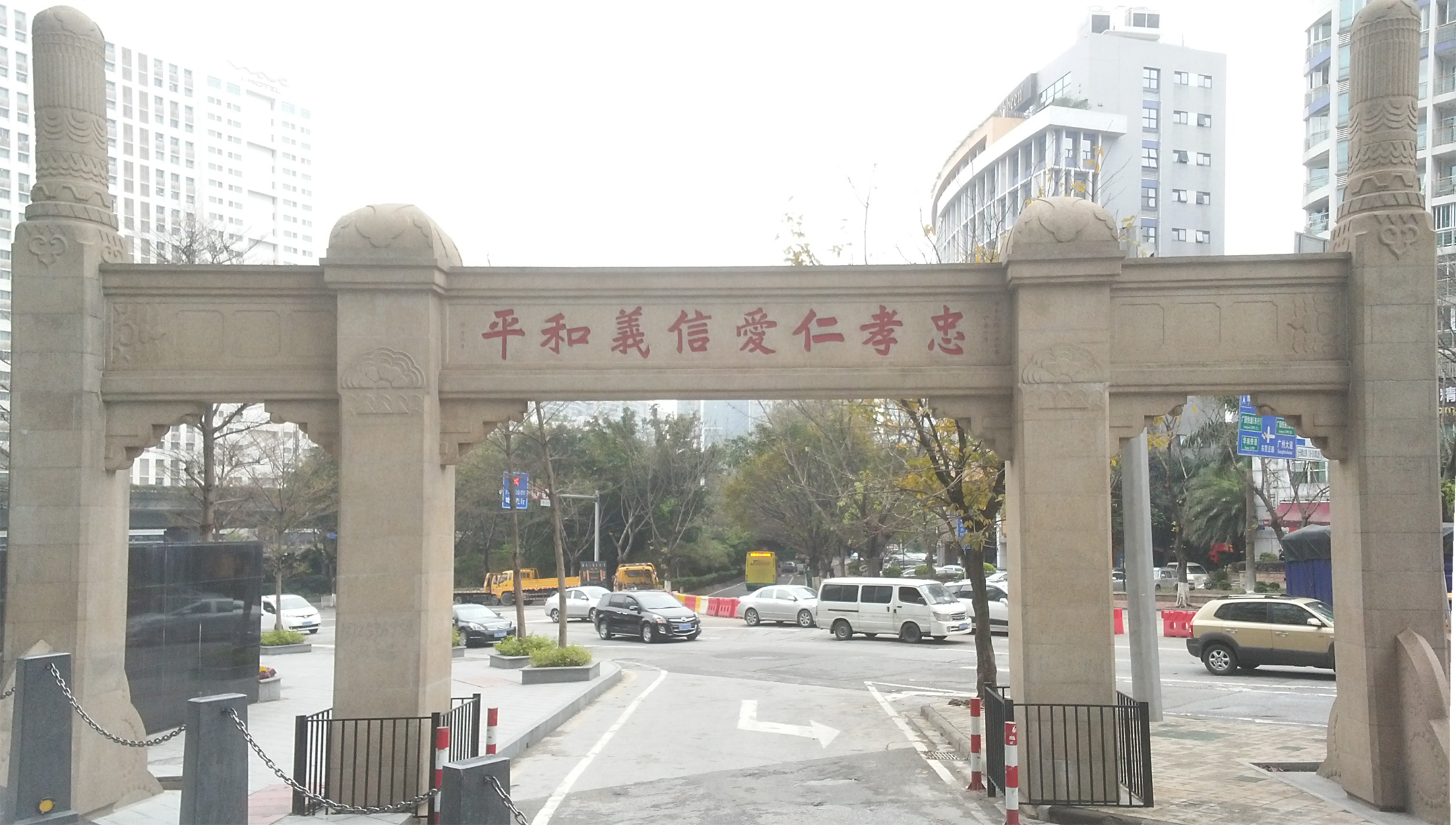 Sun Yat-sen University West Gate Back Fixed